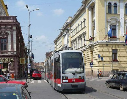 Siemens Ulf Tram in Oradea, Romania